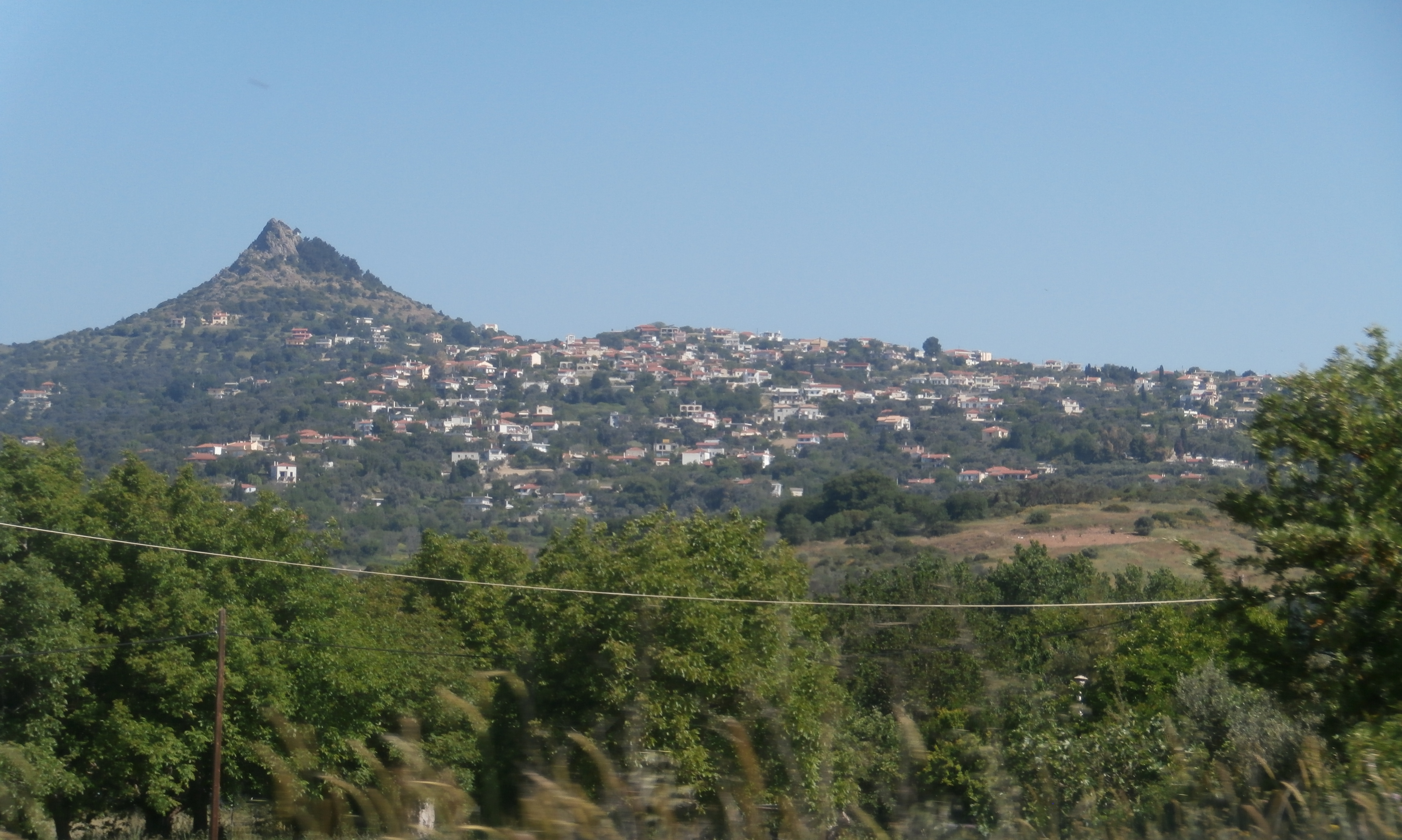 The village of Oxylithos, Euboea. The conical volcanic hill from which the village took its name is visible on the left.